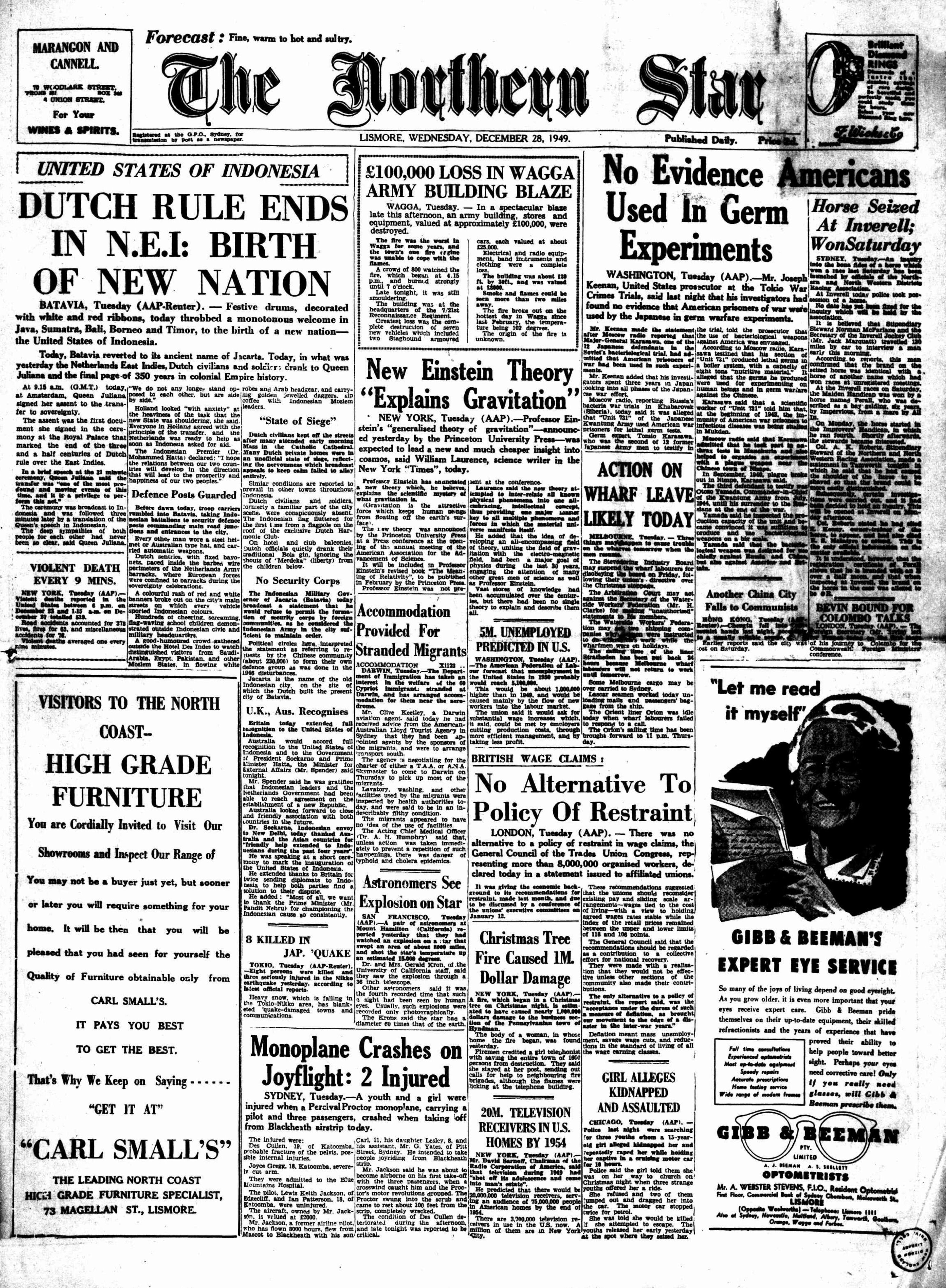 Indonesian independence 27 december 1949 Dutch East Indies Independent Newspaper.